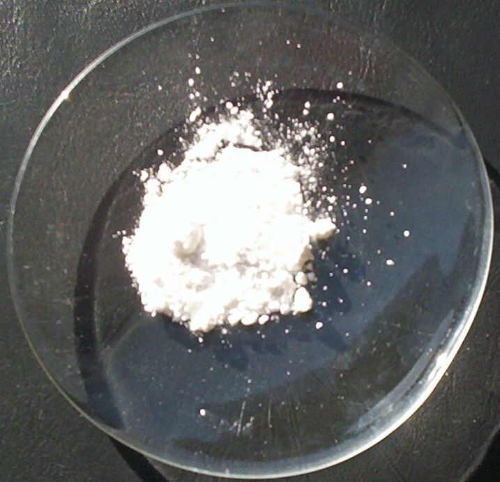 A sample of caesium carbonate. Picture taken by User:Walkerma, March 2006.